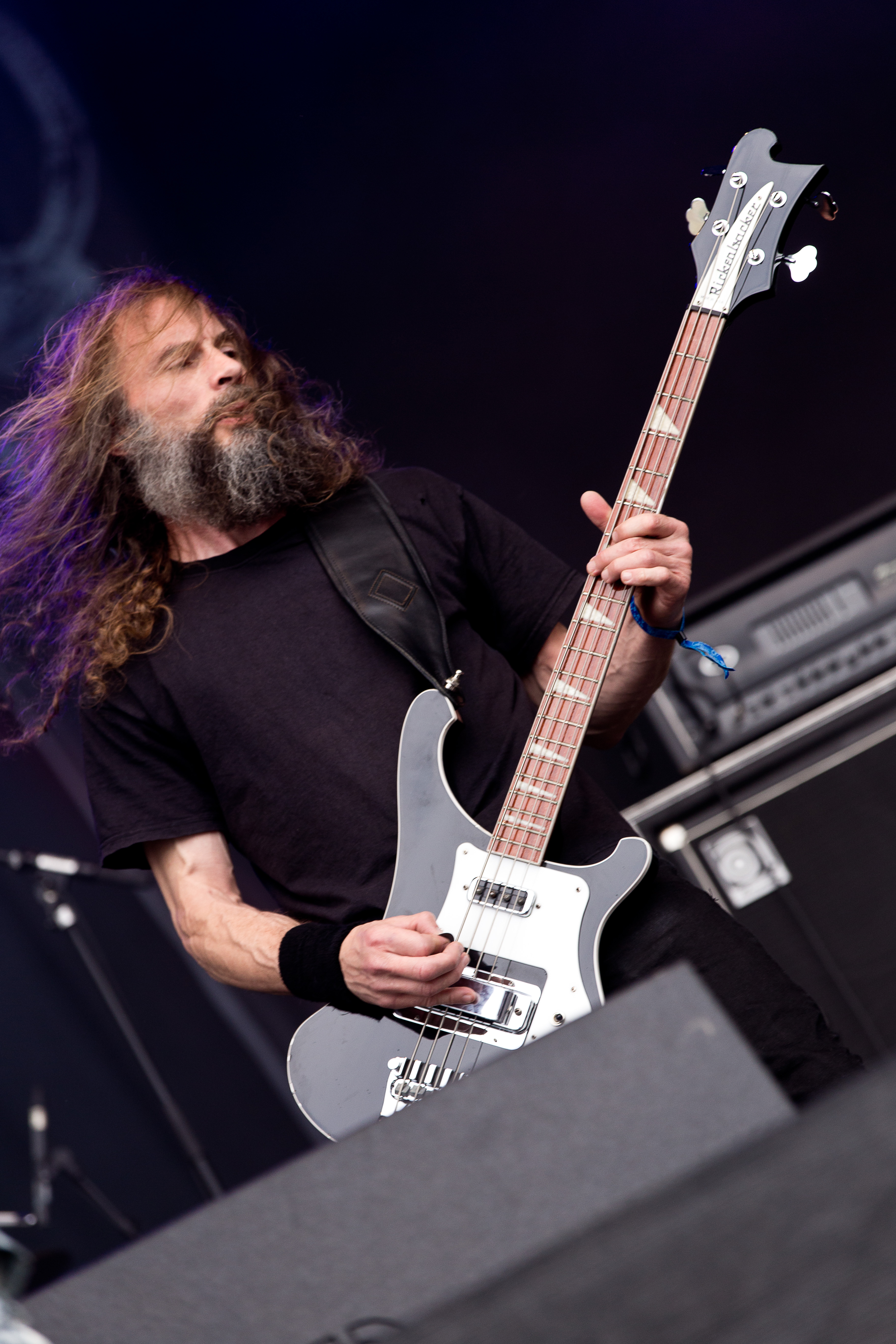 The Irish pagan metal band Primordial at the Rockharz Open Air 2016 in Ballenstedt/Germany.